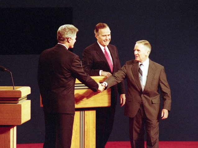 President Bush participates in the third and final Presidential Debate with Governor Bill Clinton and Ross Perot at the Wharton Center, Michigan State University in East Lansing, Michigan with Jim Lehrer, MacNeil-Lehrer News Hour is the debate moderator.